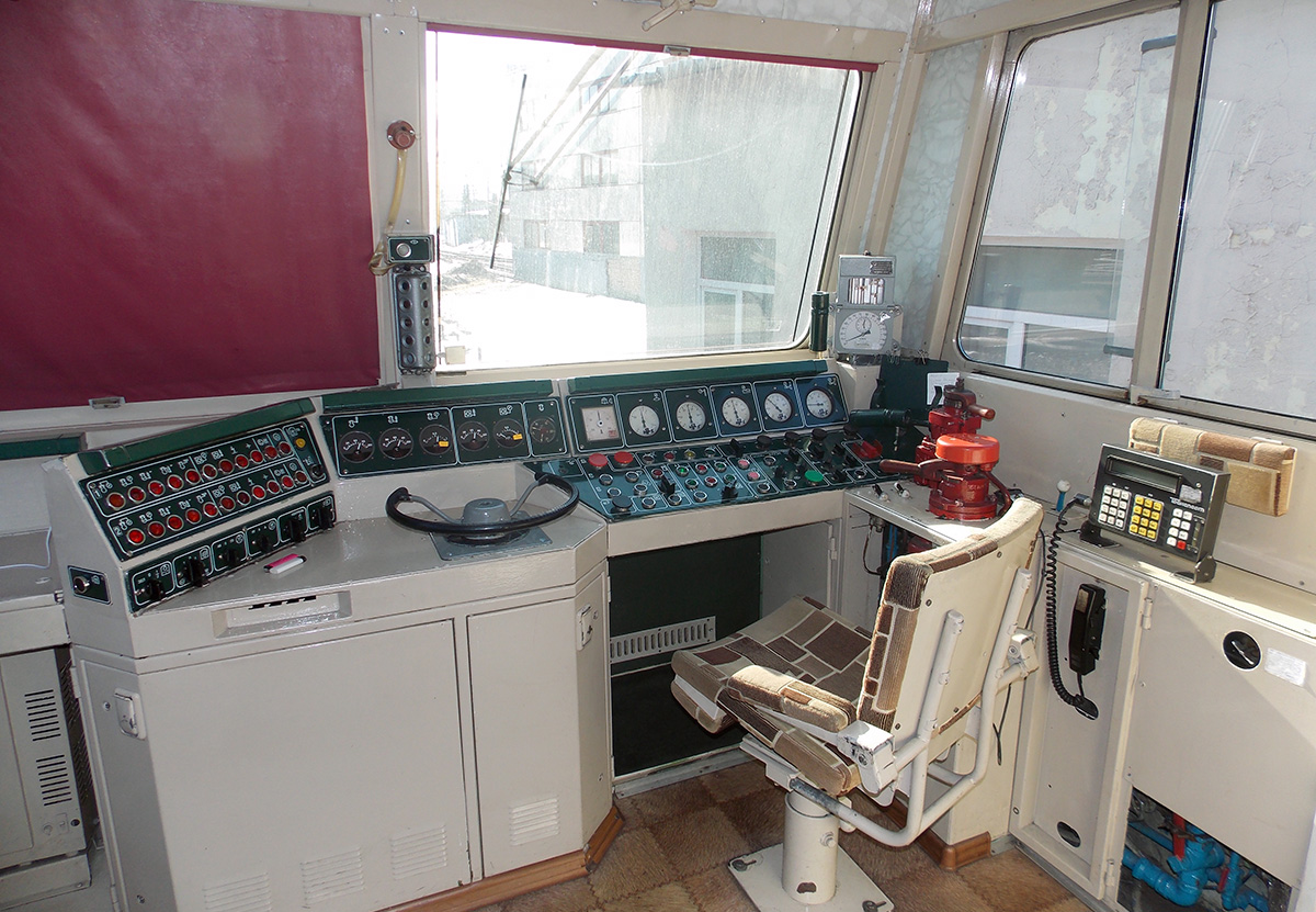 A driving cab of diesel railcar ACh2-087